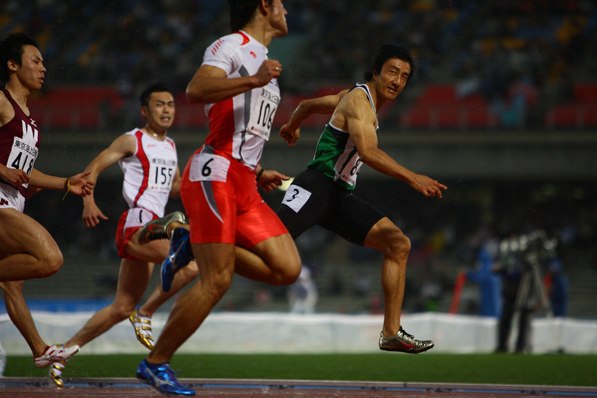 JUNE 29, 2008 - Track and Field : Nobuharu Asahara in action during the Men's 100m final in the 92nd Japan Athletics Championships at Todoroki Stadium on June 29, 2008 in Kanagawa, Japan. (Photo by Tsutomu Takasu)